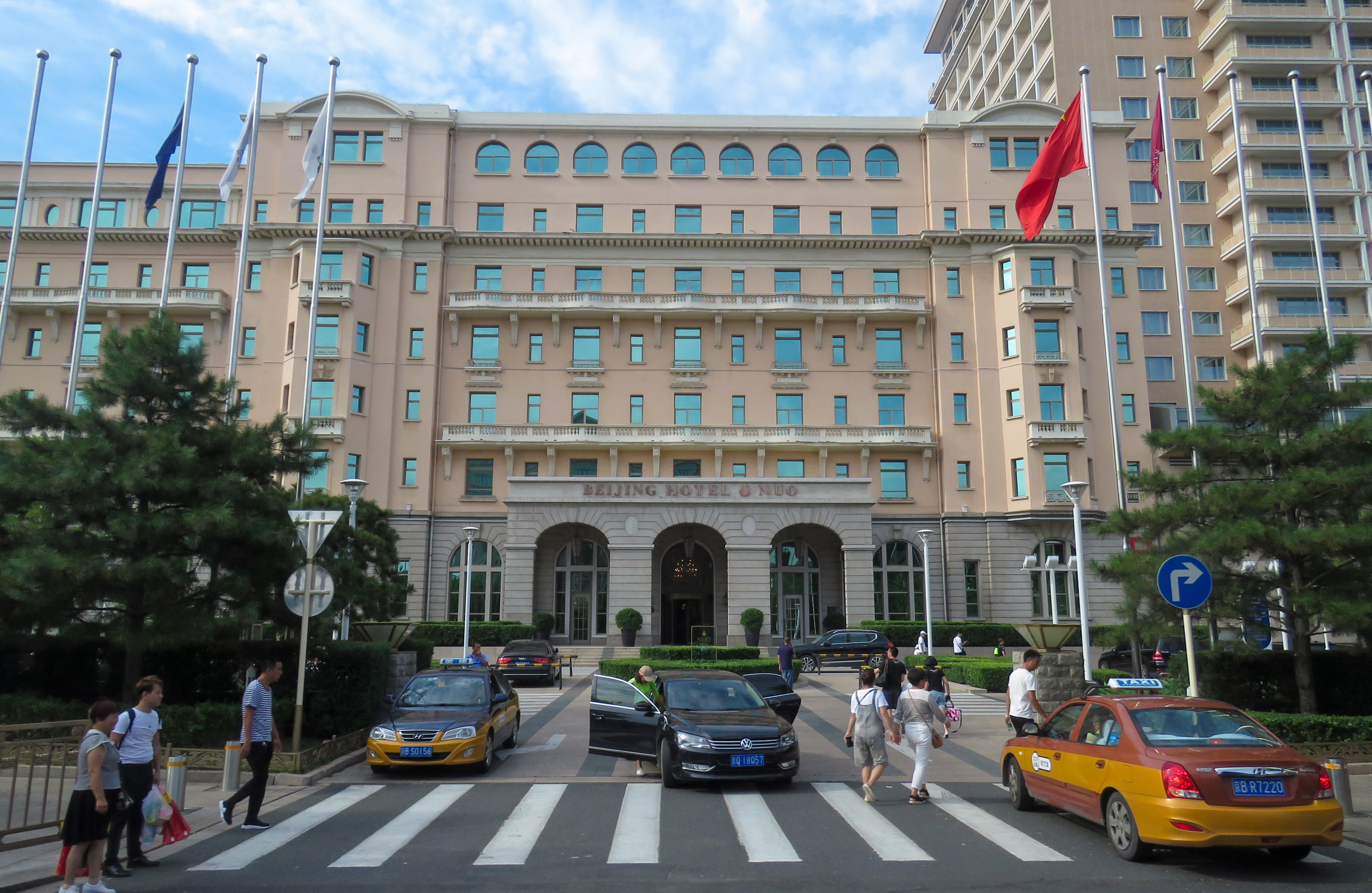 Also known as Beijing Hotel NUO Wangfujing - yeah, Raffles Beijing Hotel before 1 December 2016. NUO (诺金) is a new hotel chain established by BTG Hotels and Kempinski.